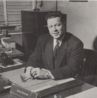 Photograph of Purdue head football coach Stu Holcomb.